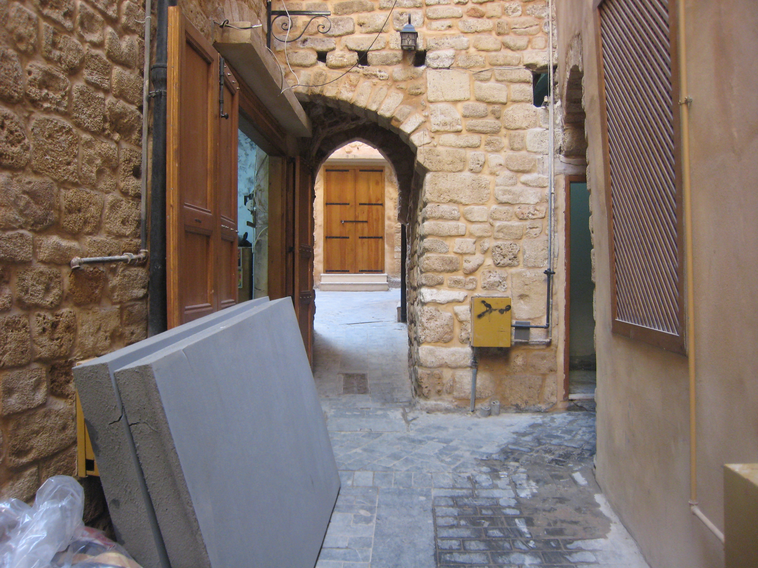 Old city